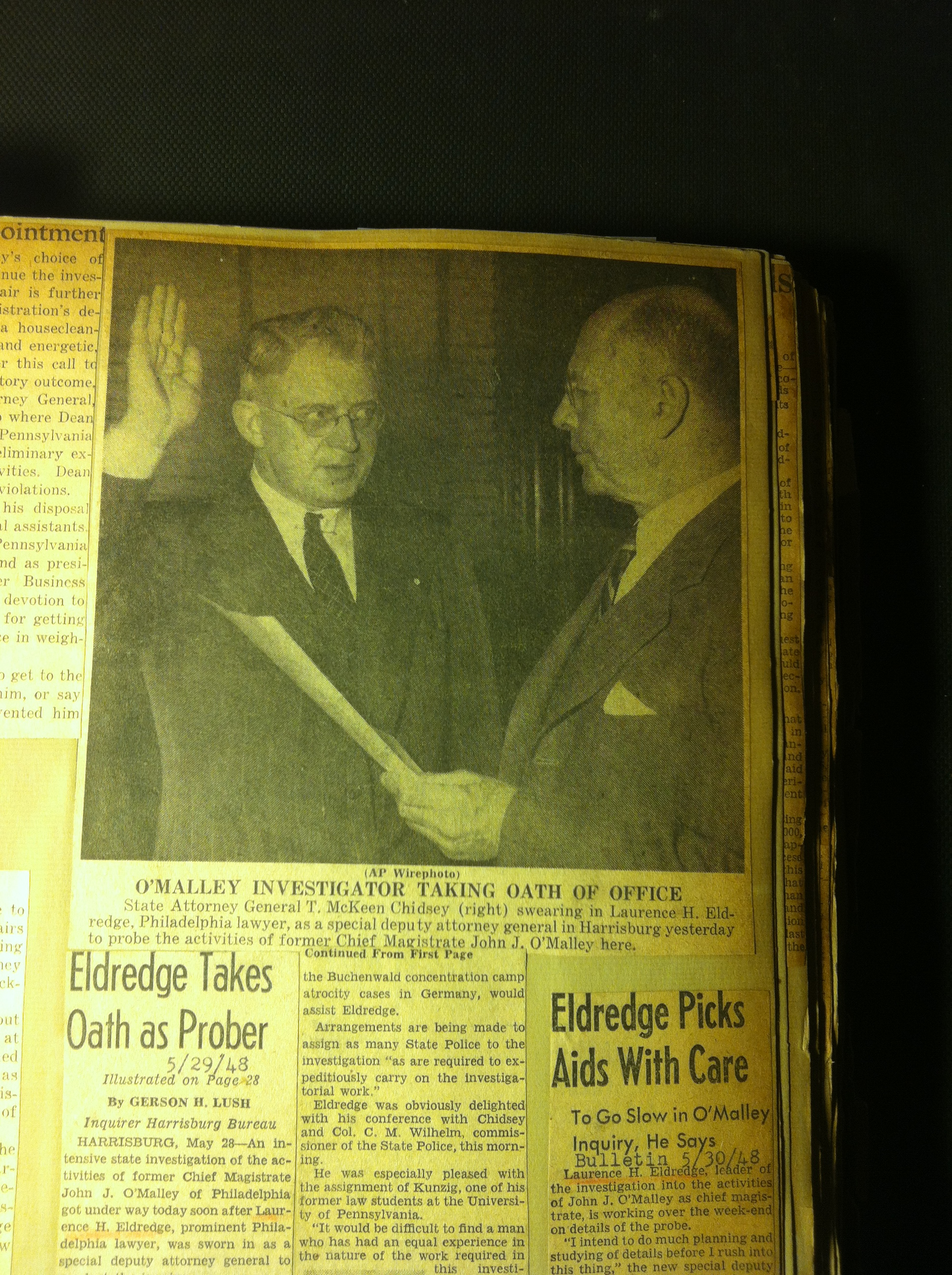 Image from my grandfathers' (Laurence H Eldredge) portfolio of news articles of The O'Malley Case